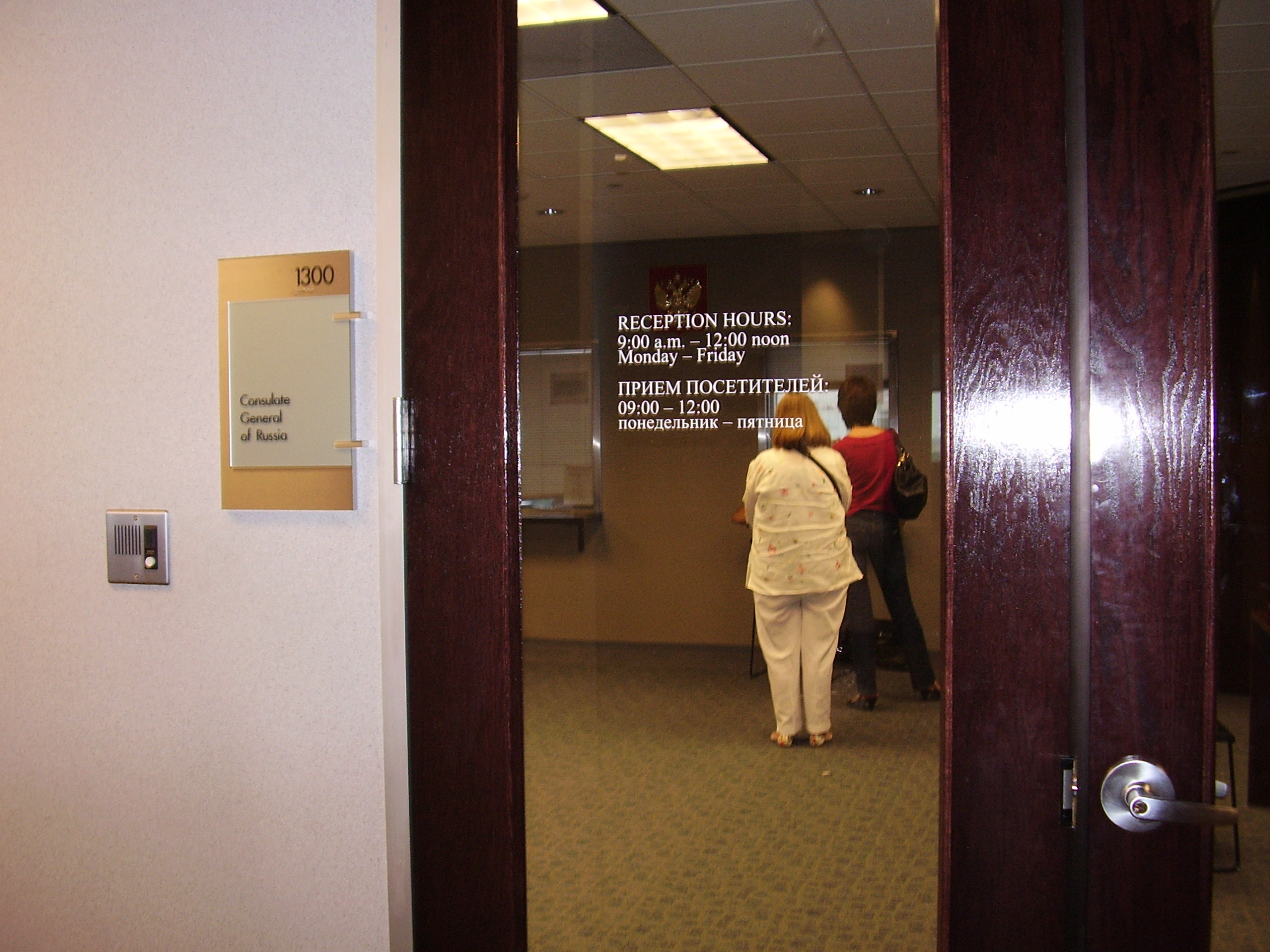 Consulate General of the Russian Federation in Houston - Suite 1300 in Park Towers South, 1333 West Loop South